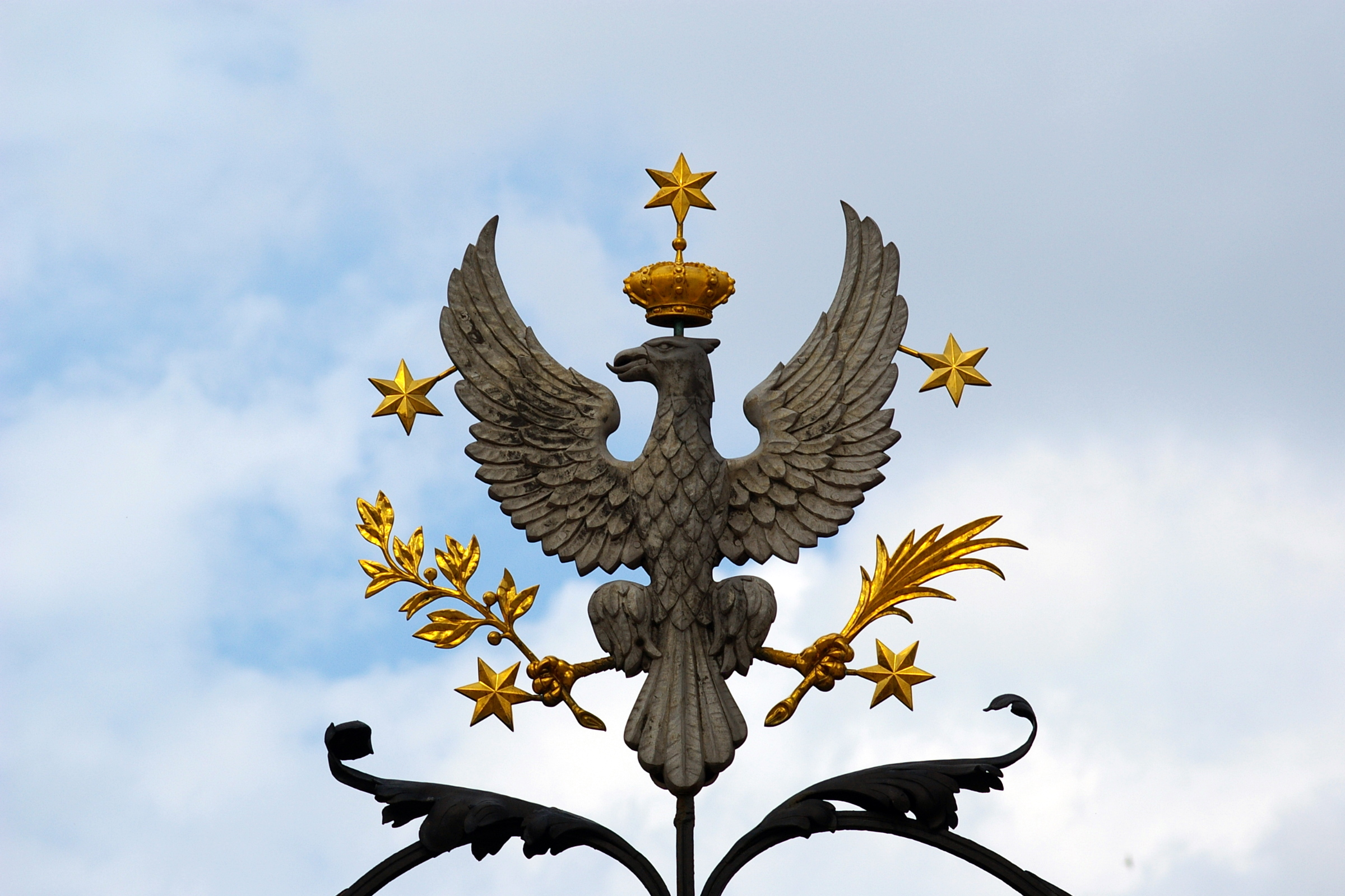 Eagle above the main gate of University of Warsaw.